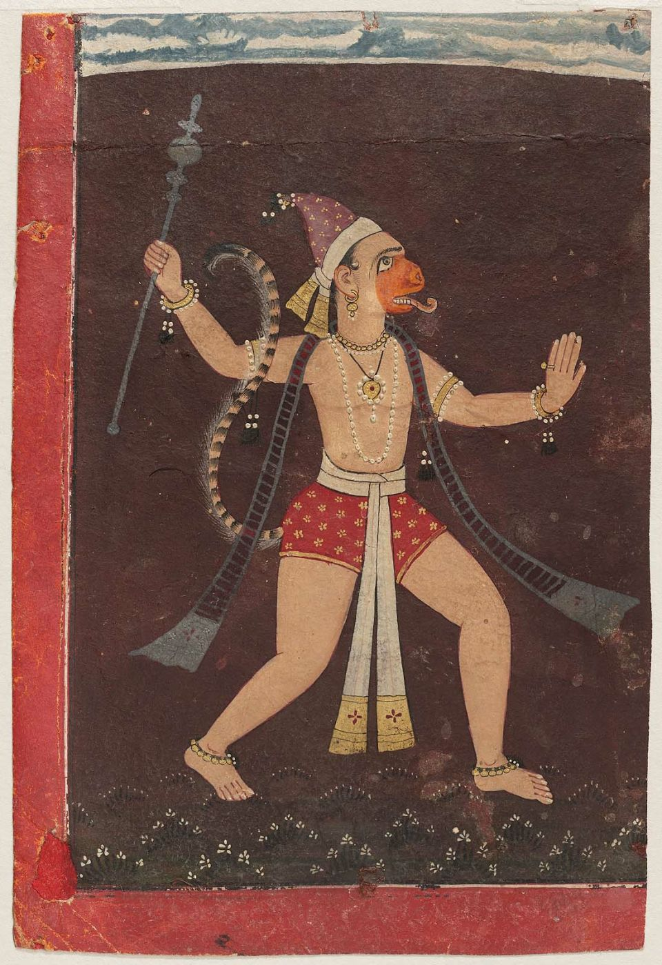 Hanuman Inscription Reverse: at bottom, in Devnagari ?, 2.5 line inscription, Bala 4, Hanuman- whatever enterrises you embark upon will become easy and productive of happiness. Provenance Purchased by Ananda K. Coomaraswamy in India prior to1916. Purchased by Denman Waldo Ross in 1917. Given to the MFA in 1917. Credit Line Ross-Coomaraswamy Collection Hanuman; Indian, Pahari, About 1700 Probably Nurpur, Punjab Hills, Northern India Dimensions Overall: 13.9 x 9.3 cm (5 1/2 x 3 11/16 in.) Image: 12.9 x 8.5 cm (5 1/16 x 3 3/8 in.) Medium or Technique Opaque watercolor, gold and silver on paper Page from an illustrated Dream Interpretation (Svapna-Darshana) series Accession Number 17.2771 Not on view Tags